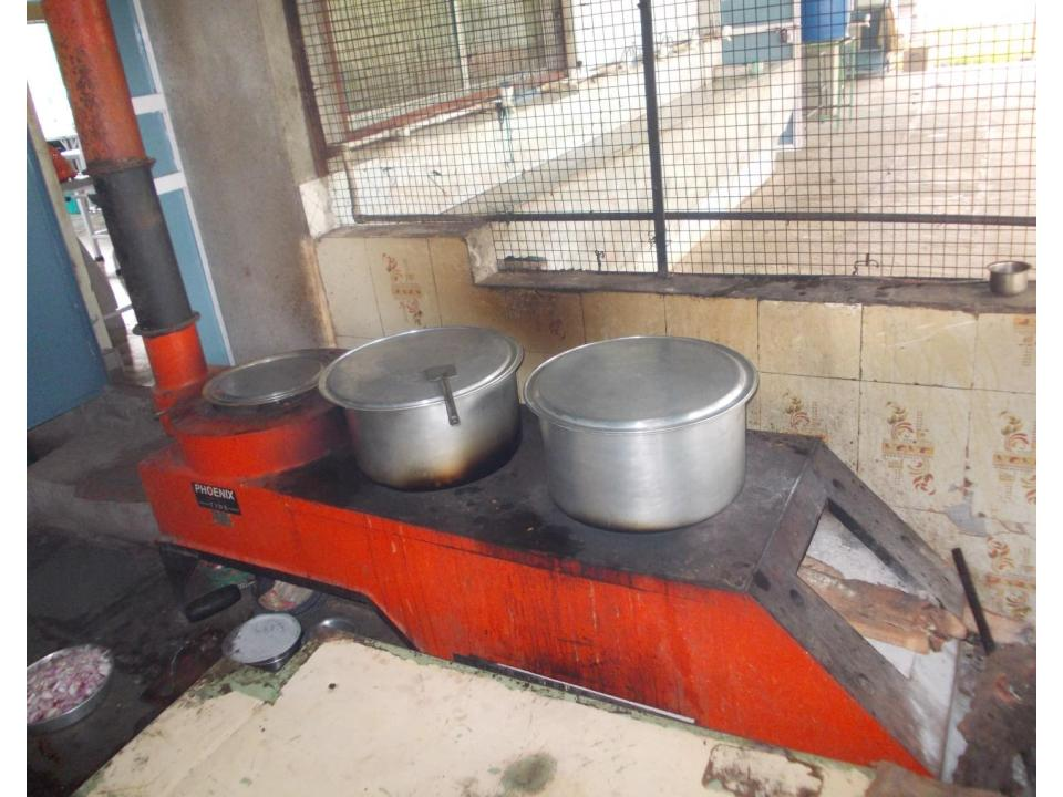 smokeless chullas